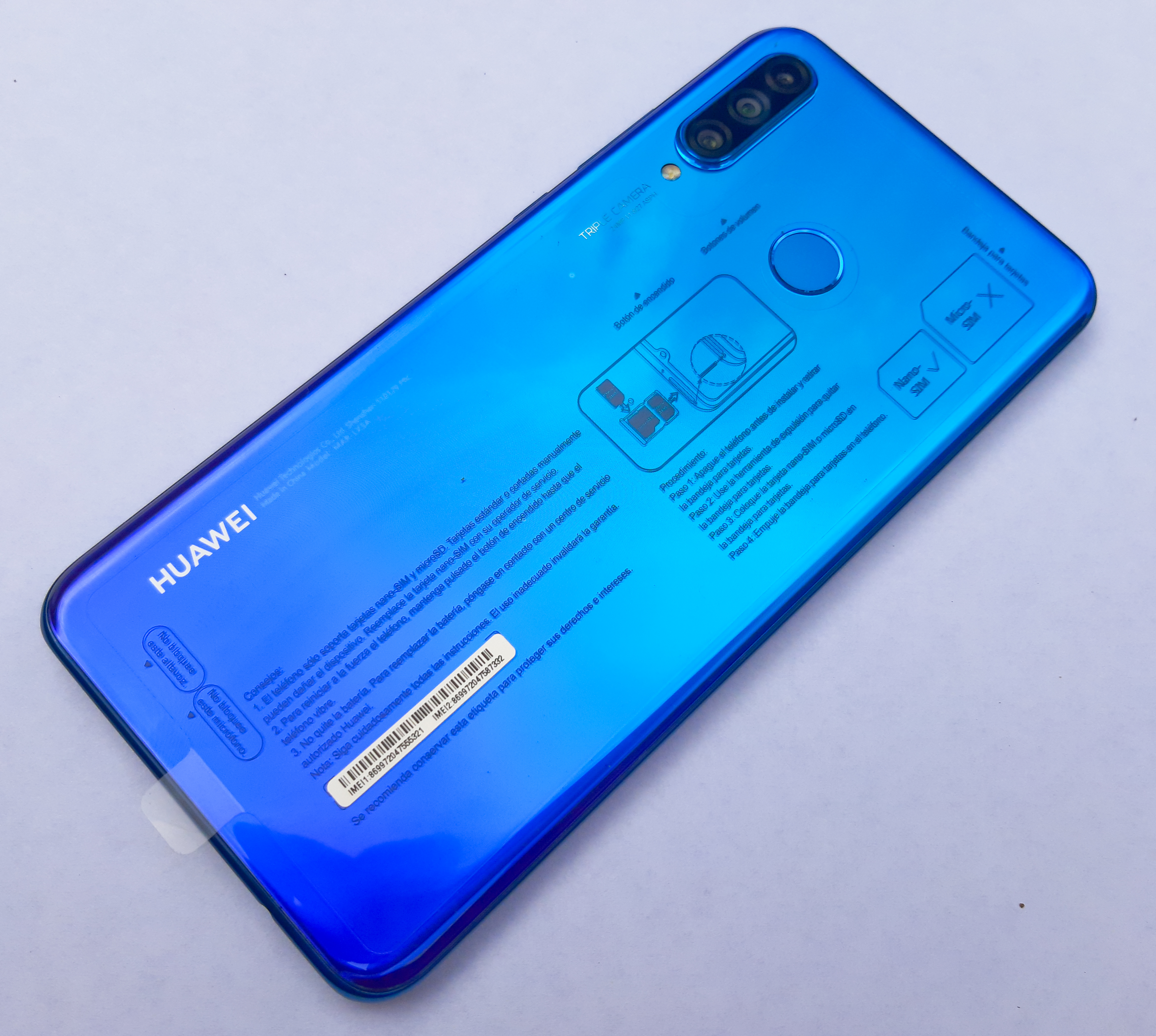 Huawei P30